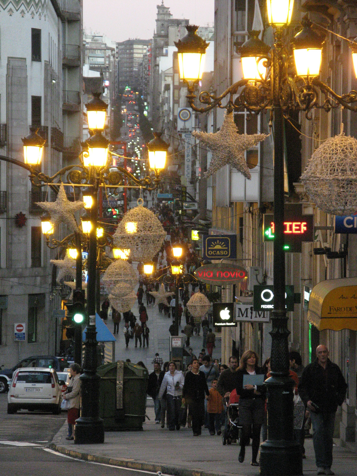 shopping street at Vigo, Spain